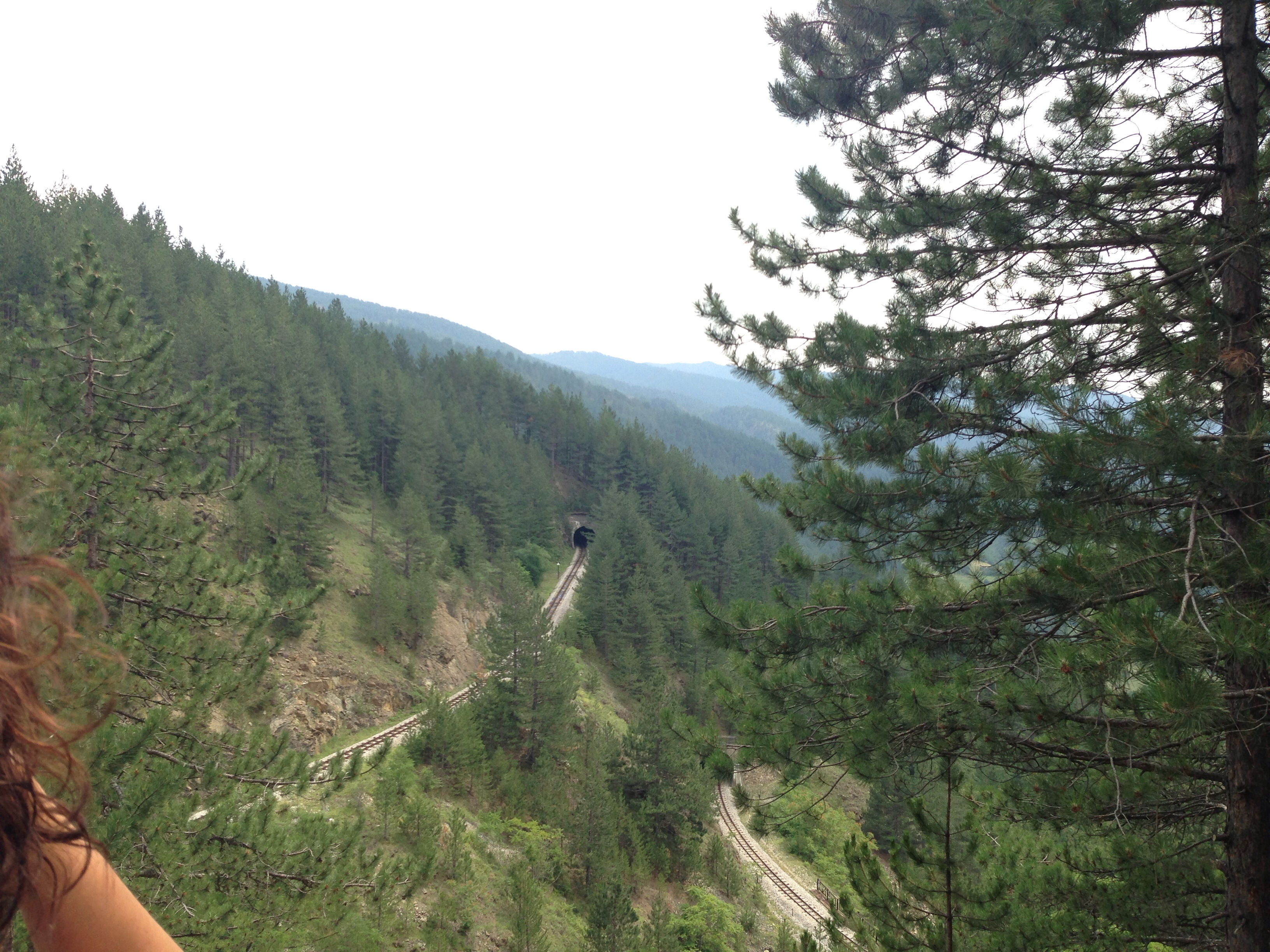 GCERC - Sargan Eight